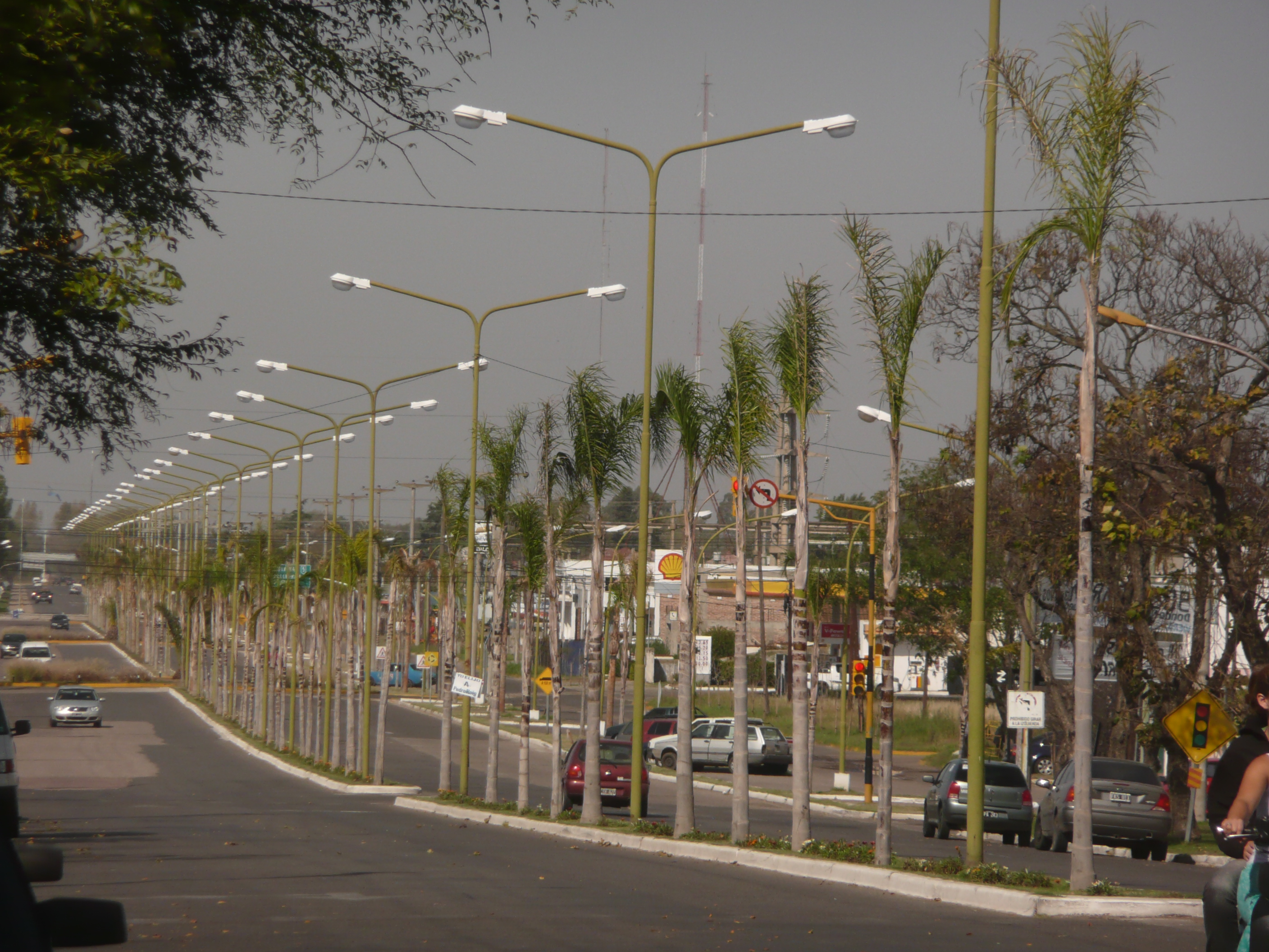 Probably Syagrus romanzoffiana ("pindó"). Trenque Lauquen, Buenos Aires province, Argentina.